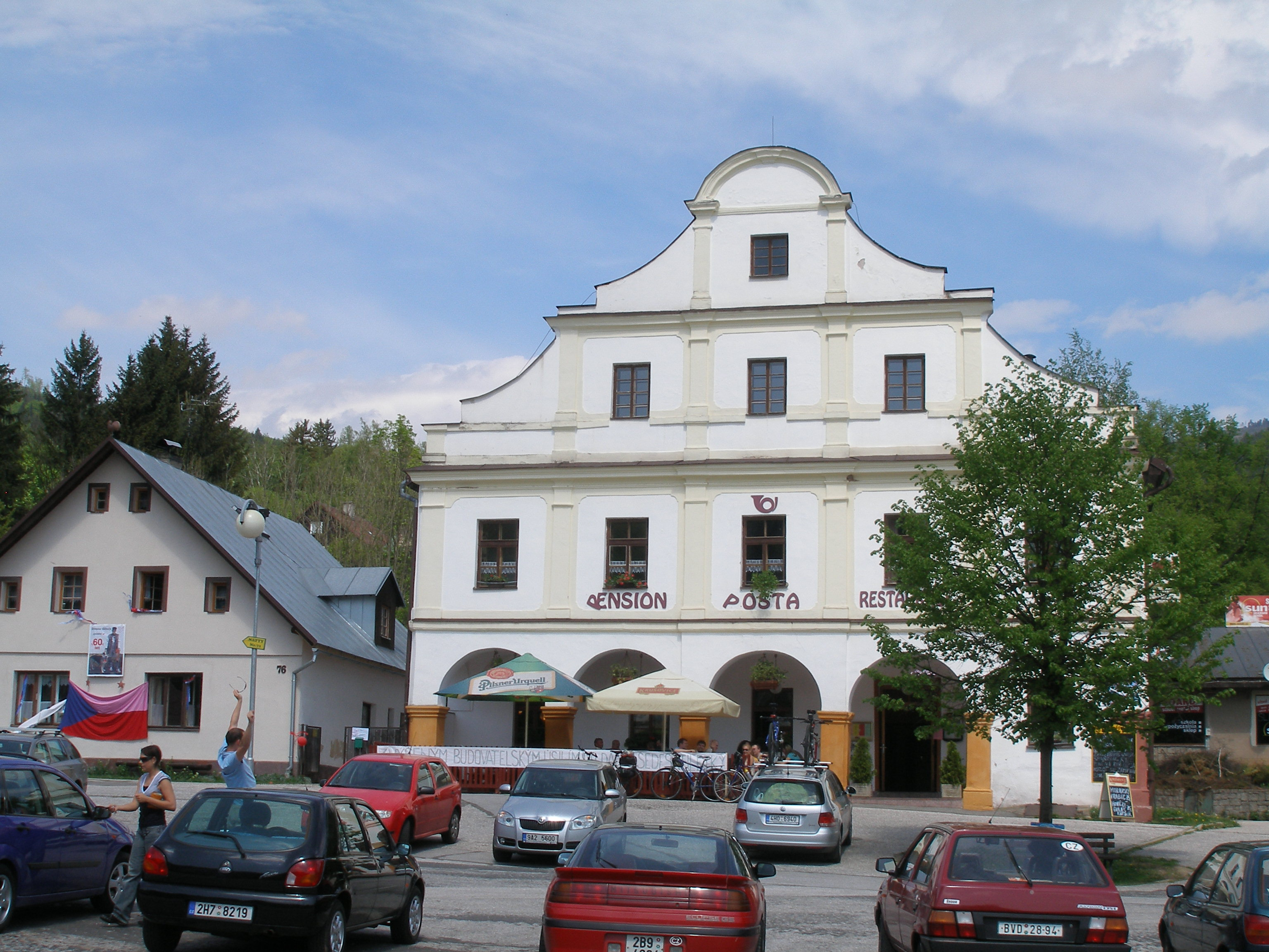 Černý Důl (Trutnov District) - the pension "Pošta" (the Post)